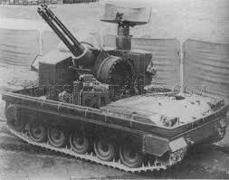 Vigilante "B", 37mm Self-Propelled Antiaircraft Weapon Mounted on T249 SP Gun Chassis—1960